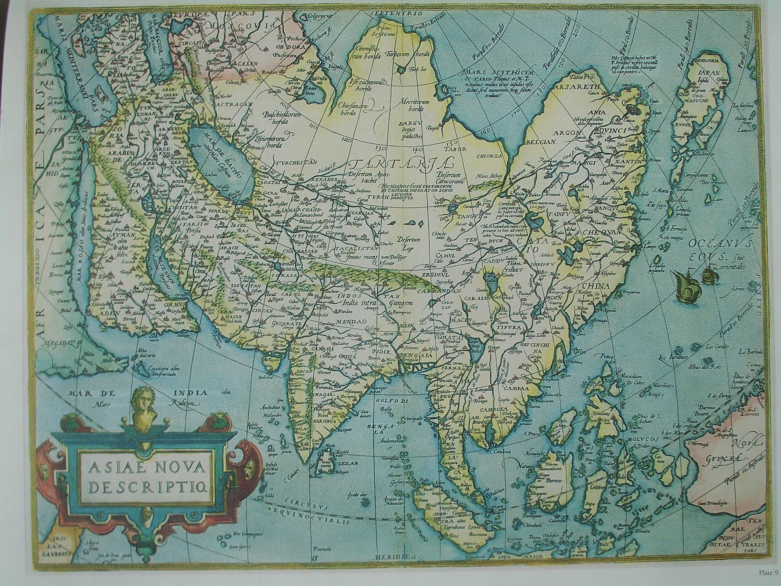 "A new description of Asia"